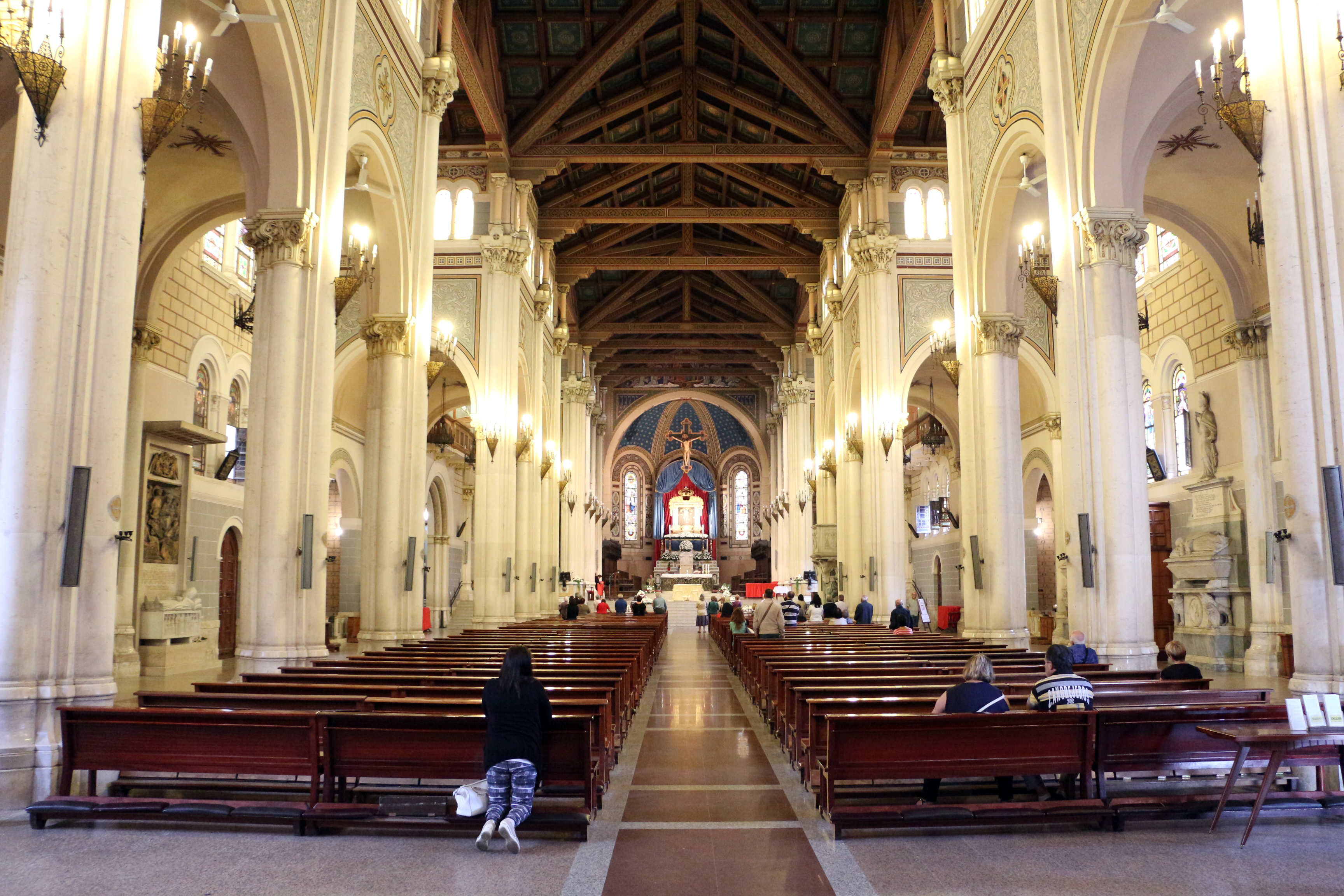 Cathedral (Reggio Calabria)